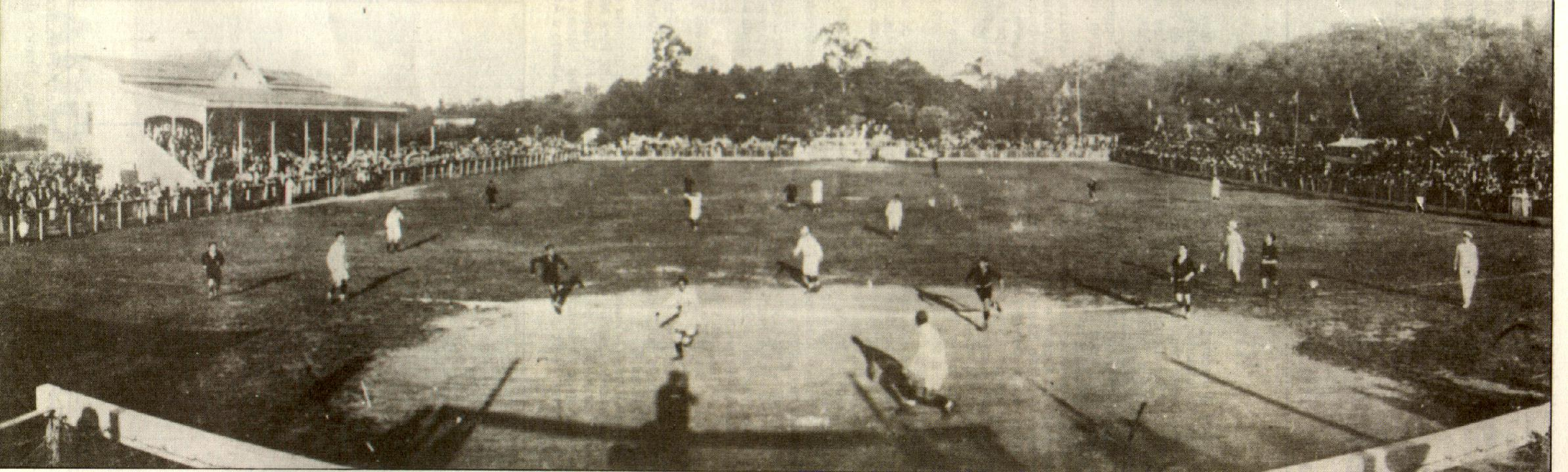 Old Stadium of Gremio Porto-alegrense in the 30's